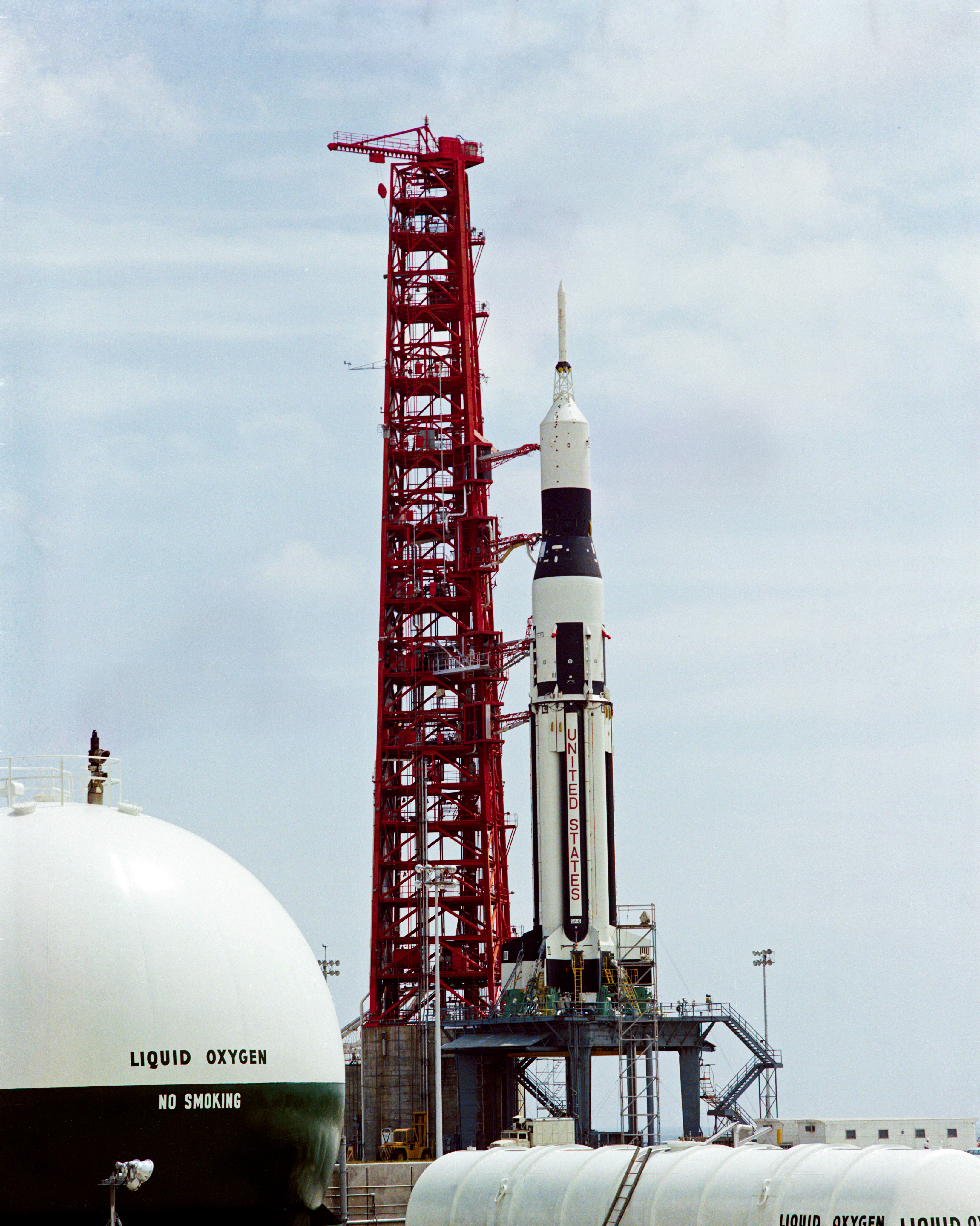 Saturn SA-6 on the pad, prior to a radio frequency interference test at launch complex 37.